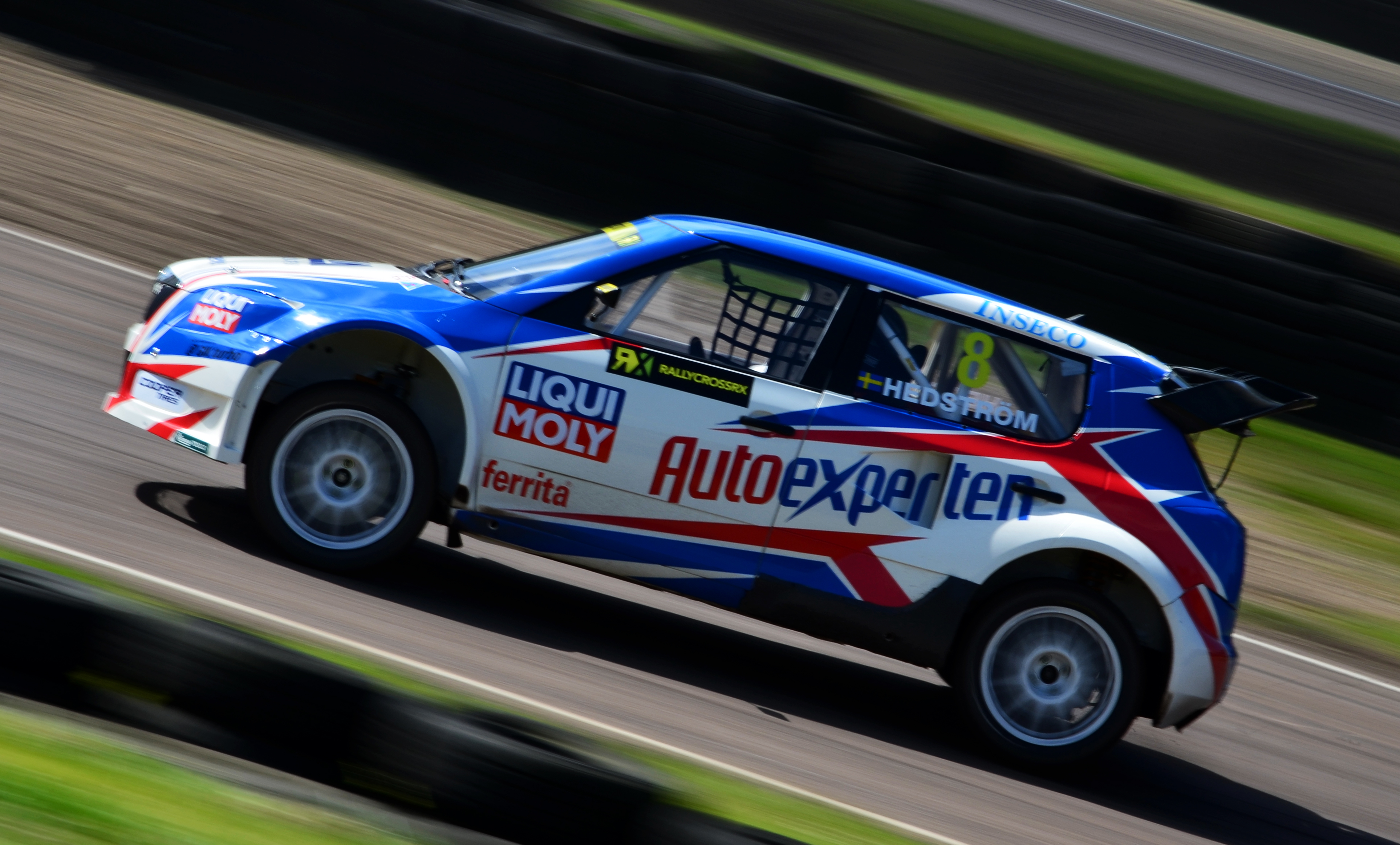 Peter Hedström at Lydden Hill for round 2 of the 2014 FIA World Rallycross Championship.